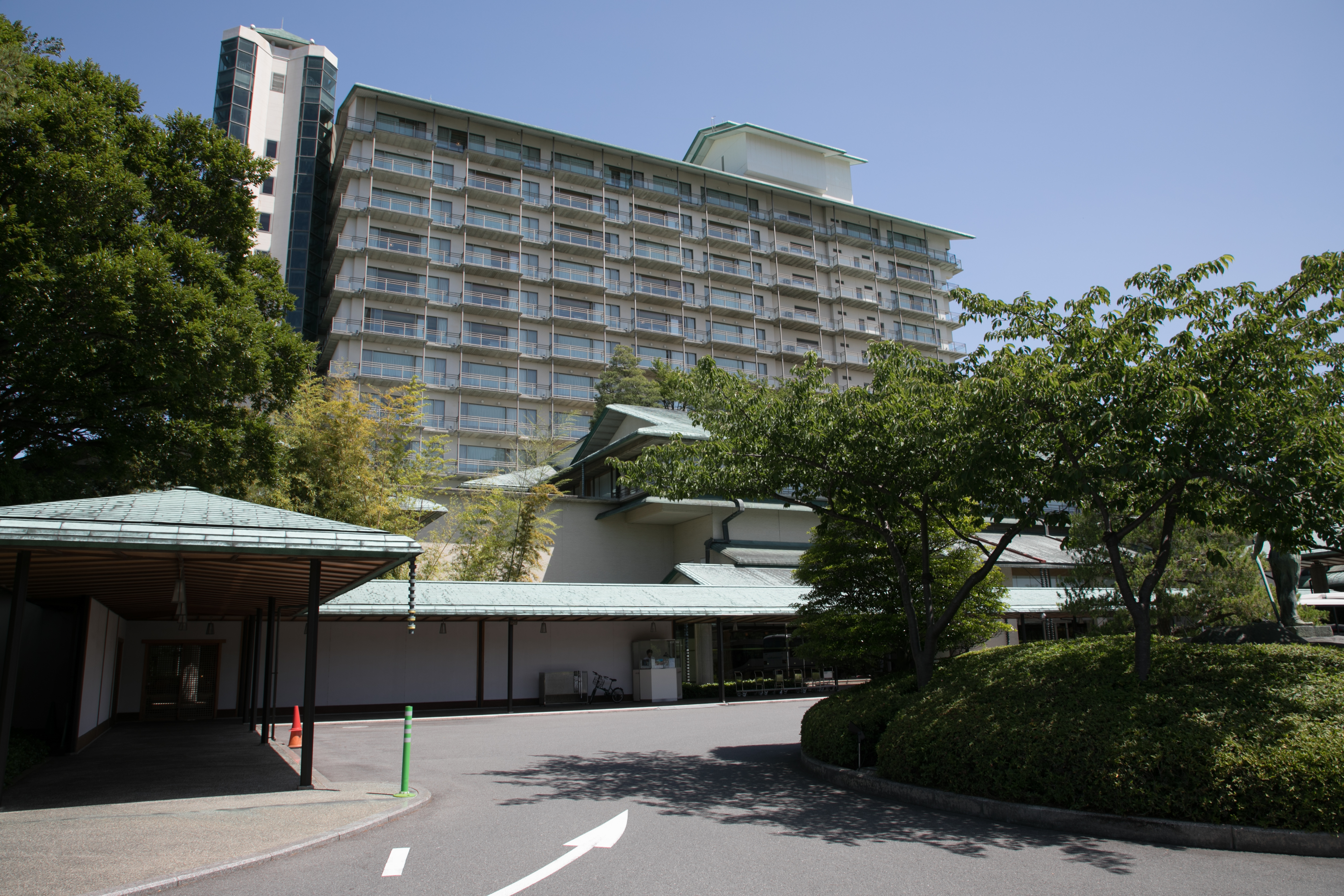 hotel hanamizuki